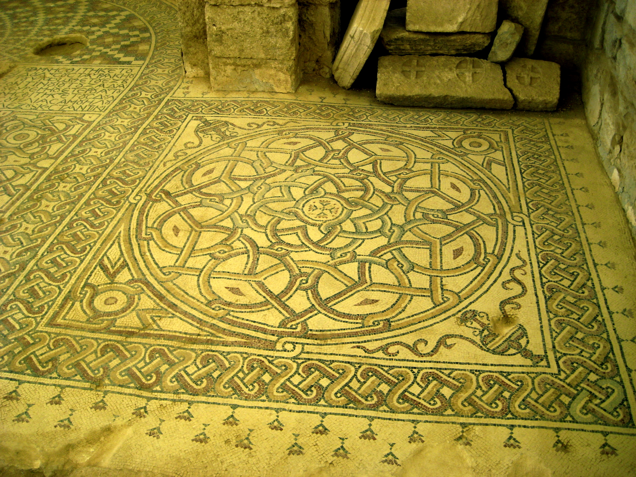 Mosaic from Saint Stephen Church located in Umm Rasas, Jordan.